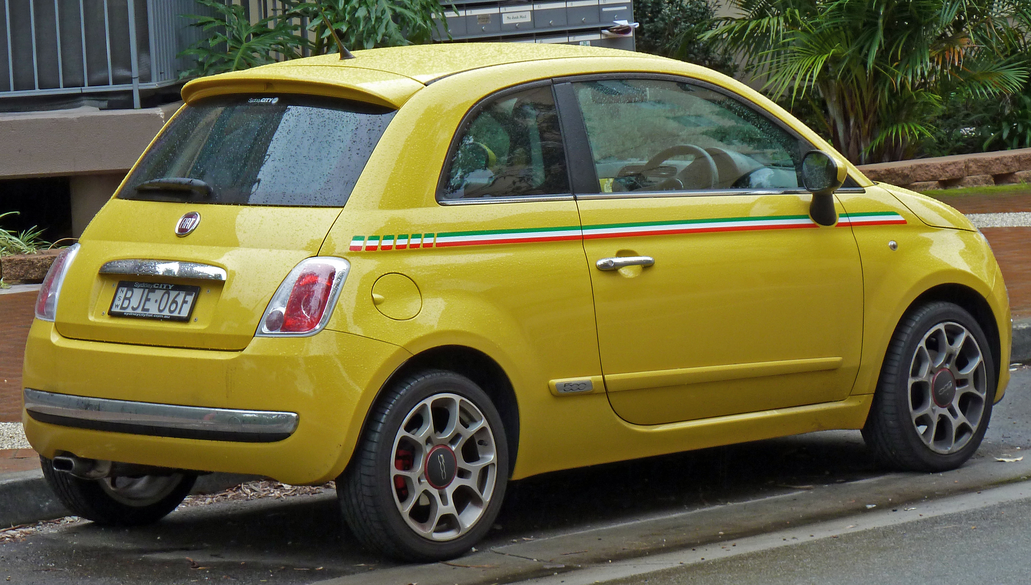 2008 Fiat 500 Sport hatchback. Photographed in Miranda, New South Wales, Australia.